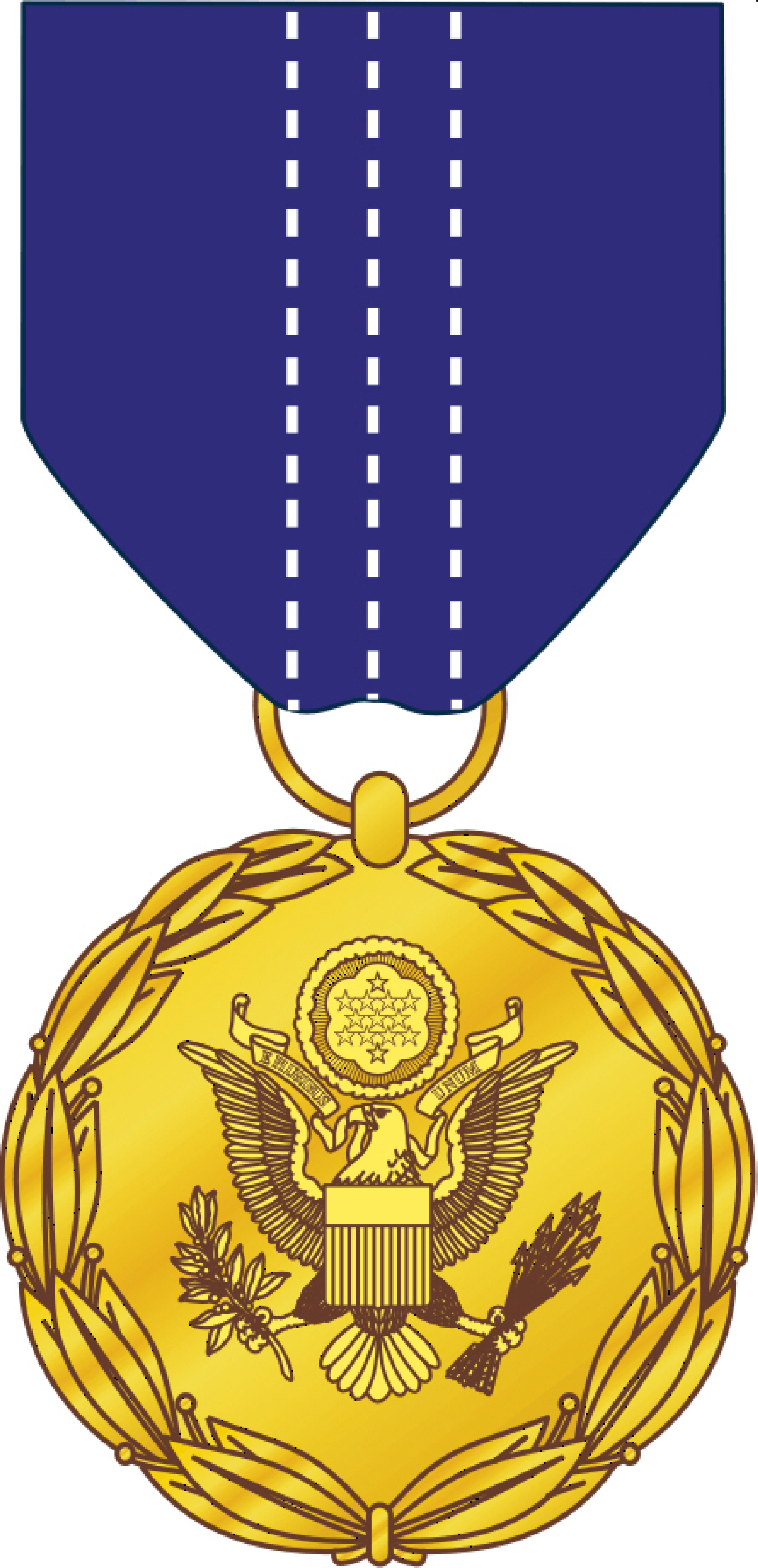 US Department of the Army Exceptional Civilian Service Medal Obverse